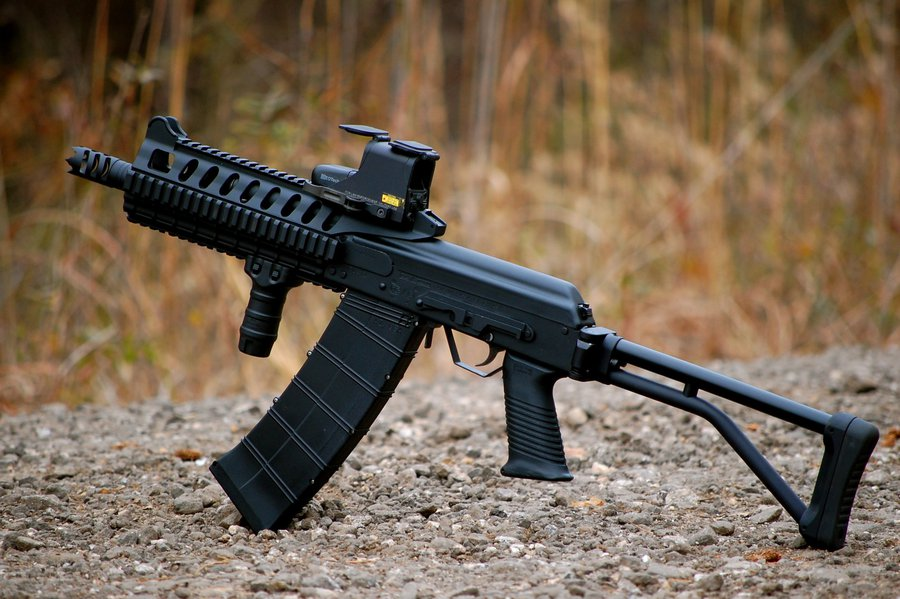 Russian shotgun Saiga12 by Izhmash with EOTech